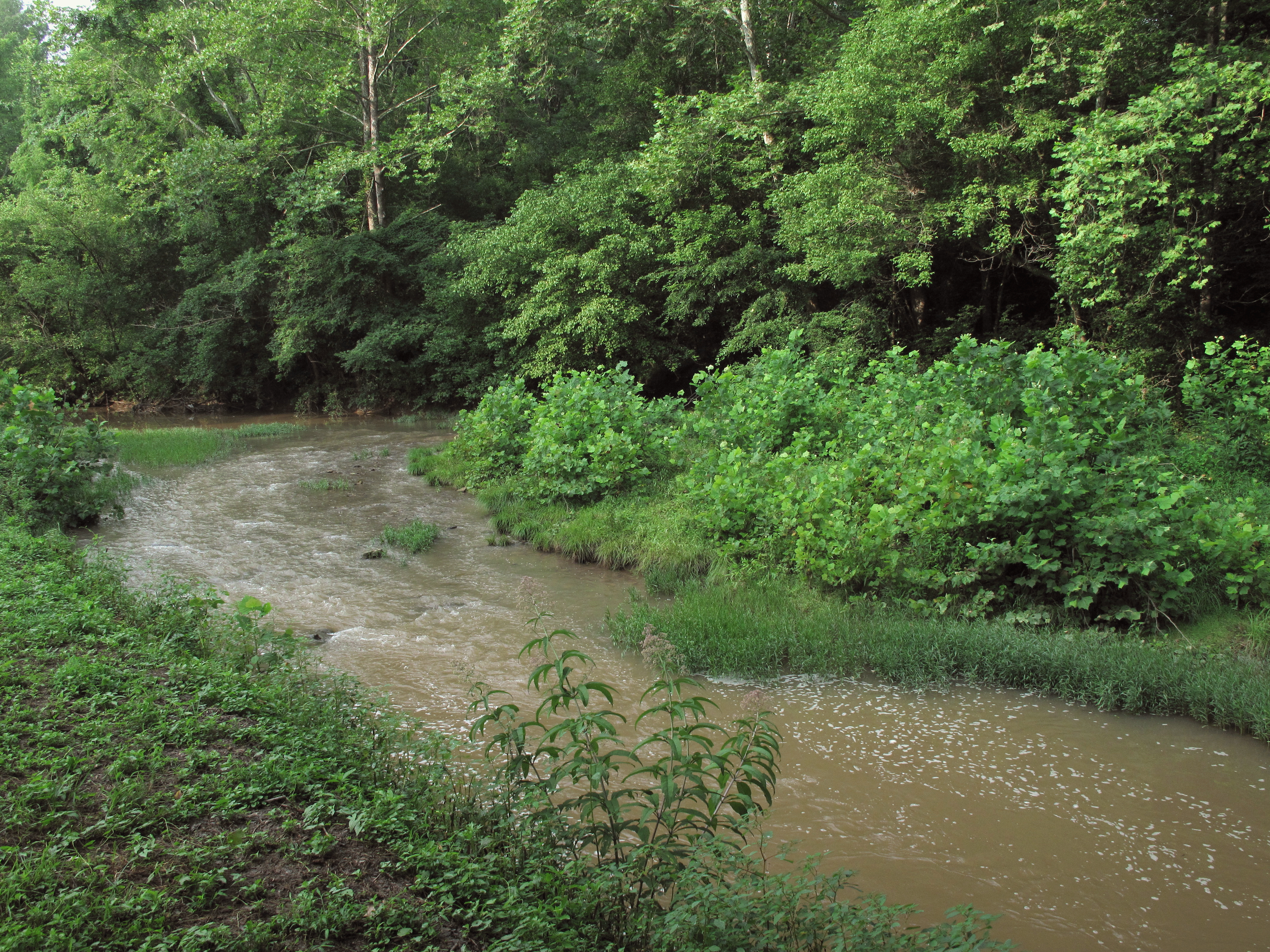 The Meathouse Fork in Doddridge County Park south of Smithburg in Doddridge County, West Virginia